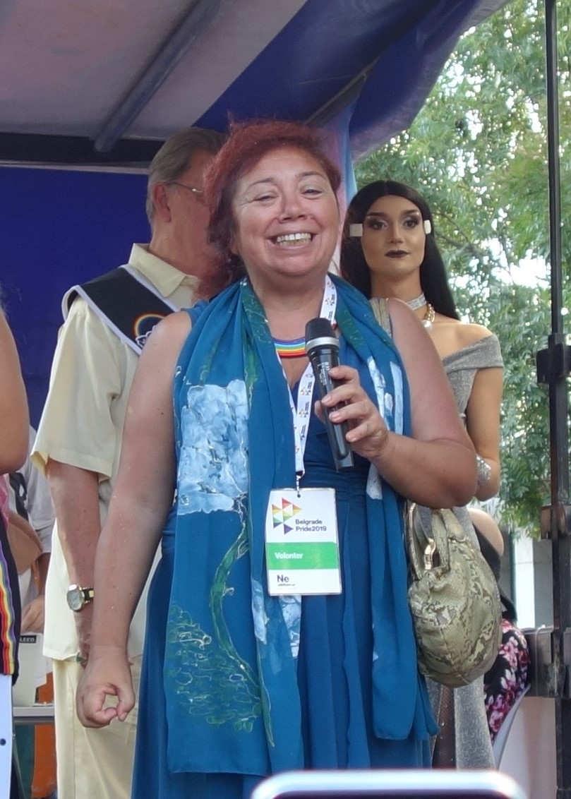 Belgrade’s eighth Pride Parade took place on September 15th, 2019. Thousands take part in Belgrade Pride marching under the slogan ‘’I’m not giving up’’. Gordana Perunović Fijat, proud mother of lesbian daughter. Српски (ћирилица): Осма београдска парада поноса на којој је учествовало више хиљада људи одржана је 15. септембра под слоганом "Не одричем се". Гордана Перуновић Фијат, мајка ЛГБТ+ девојке.